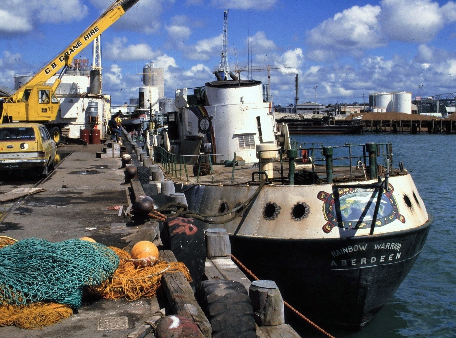 Rainbow Warrior (1955), photo taken in 1985 in Auckland, NZ